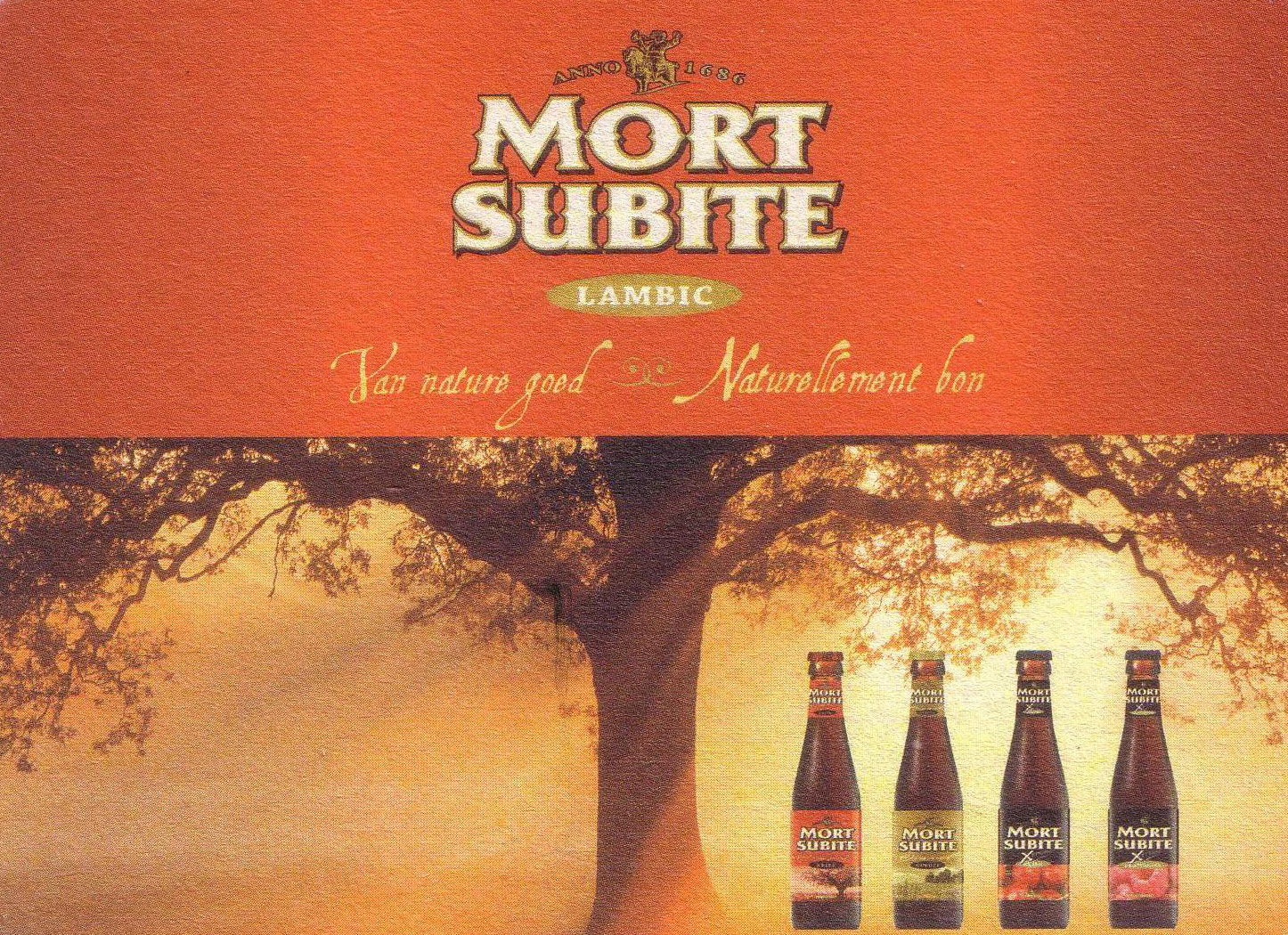 Beermat from Belgium